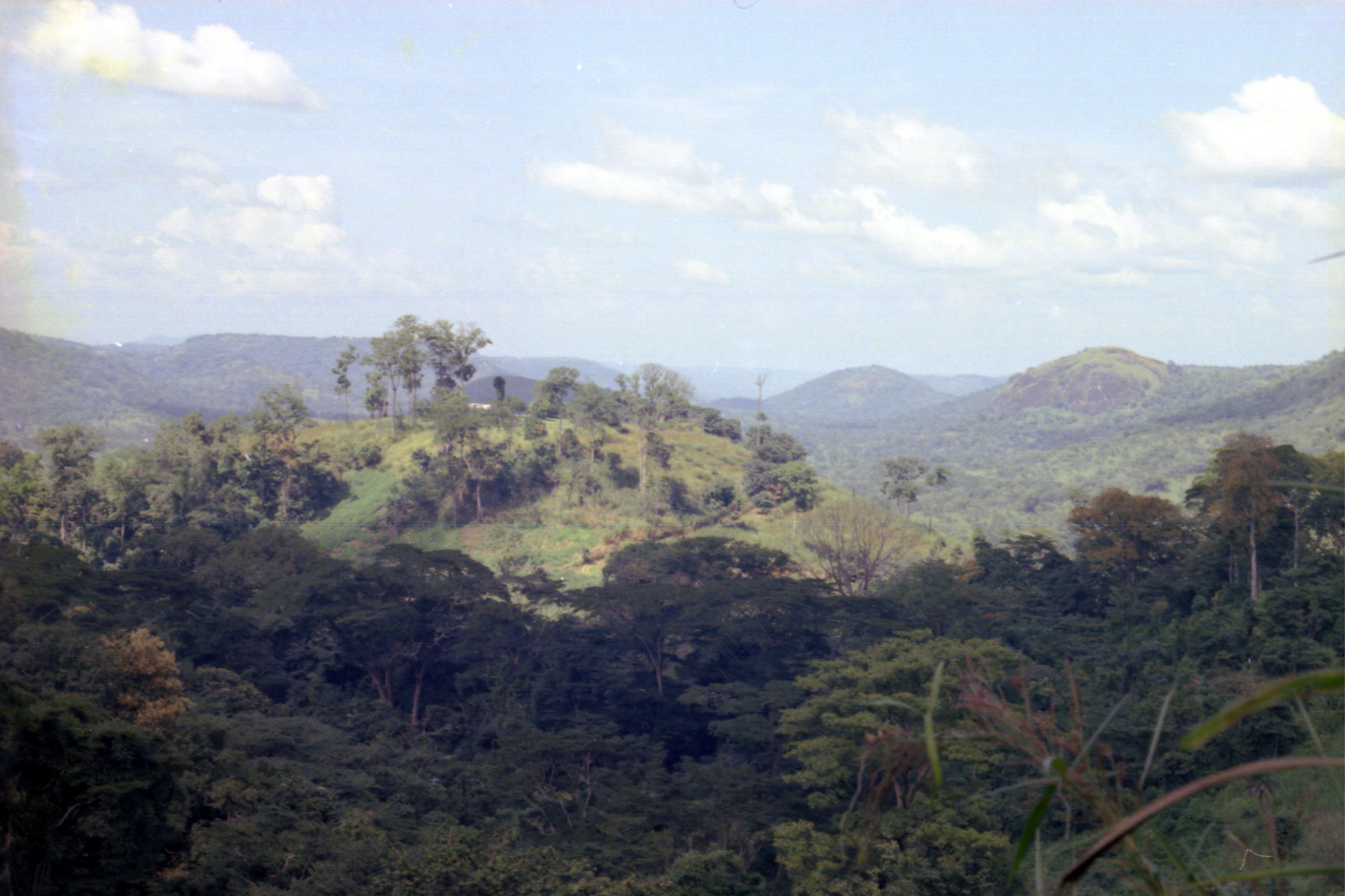 Photo taken in November, 1967 near Bafodia [Bafodea, Bafodya]